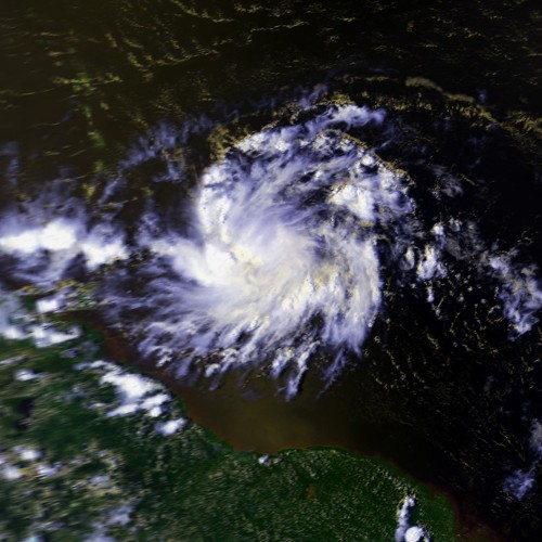 Tropical Storm Danielle on September 7 at approximately 1808 UTC. This image was produced from data from NOAA-9, provided by NOAA.